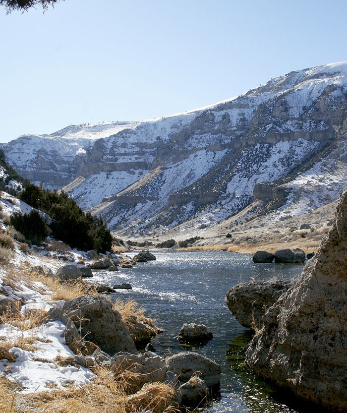 Wind River Canyon in Winter